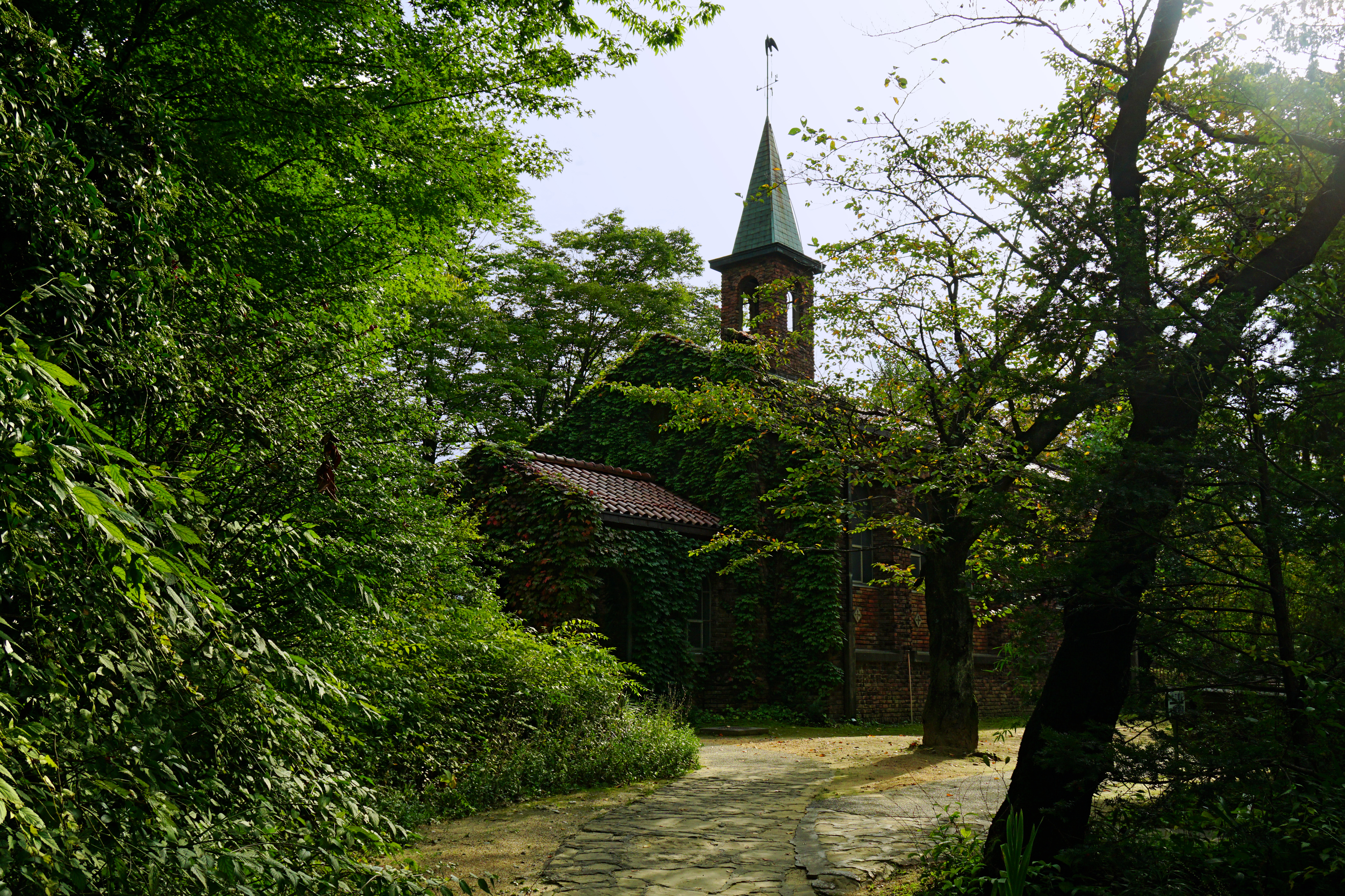 Rokuzan Art Museum in Azumino, Nagano prefecture, Japan